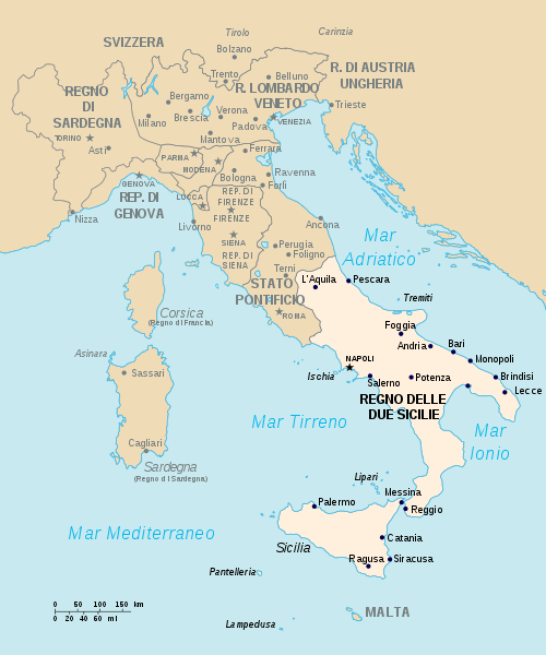 location of the Kingdom of the Two Sicilies in 1494 (Italian names).